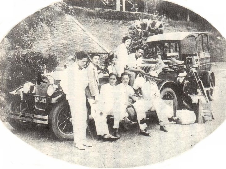 a film still of the silent movie "New Friend (新客)" in 1927.